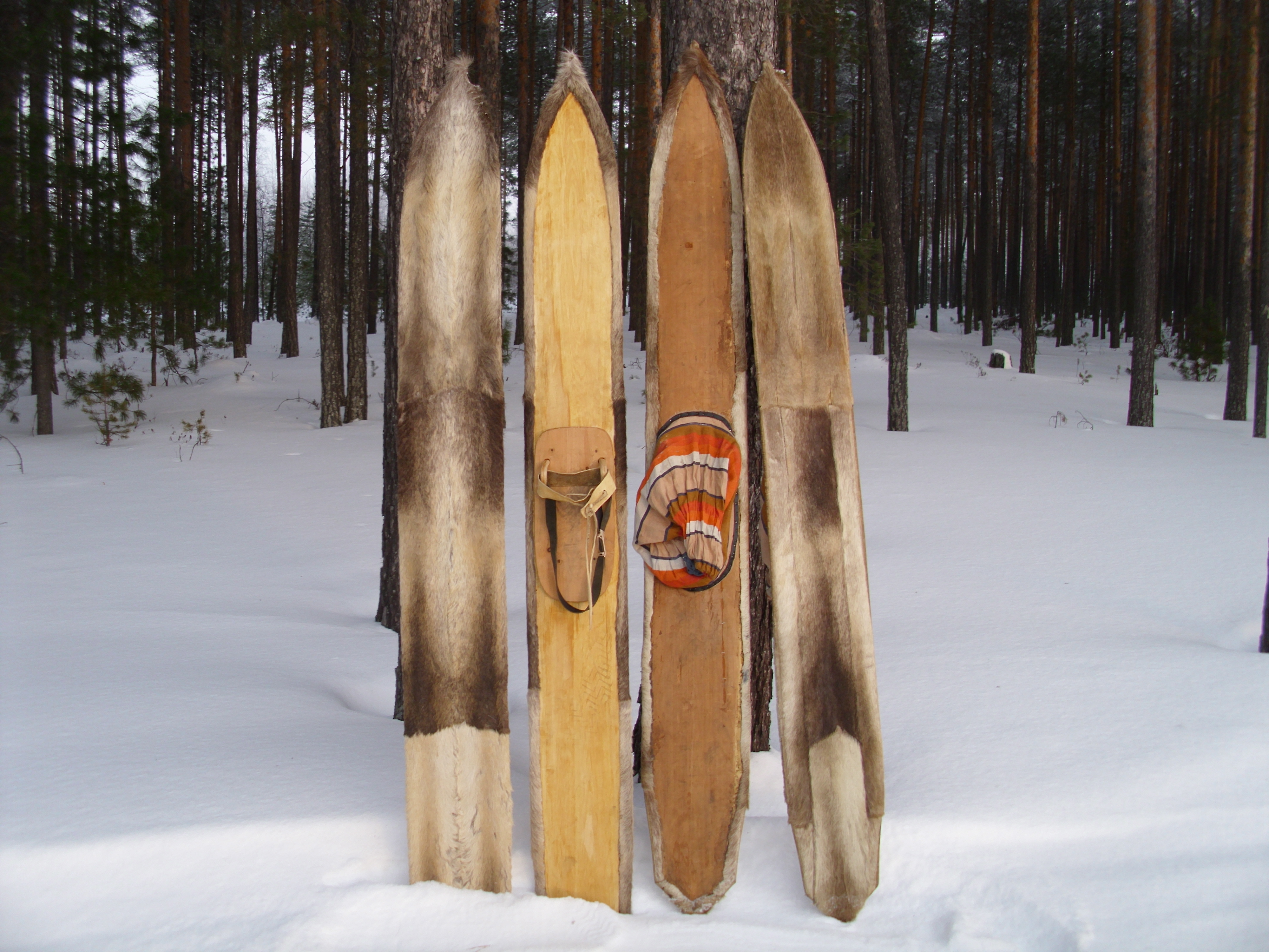 Khanty-skiing